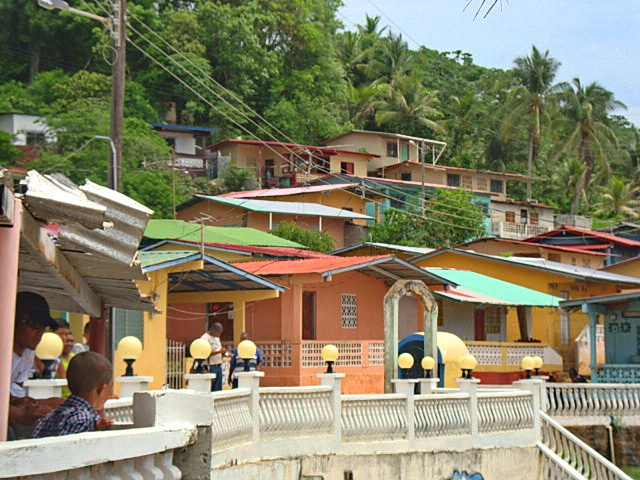 Partial View of Otoque Island.